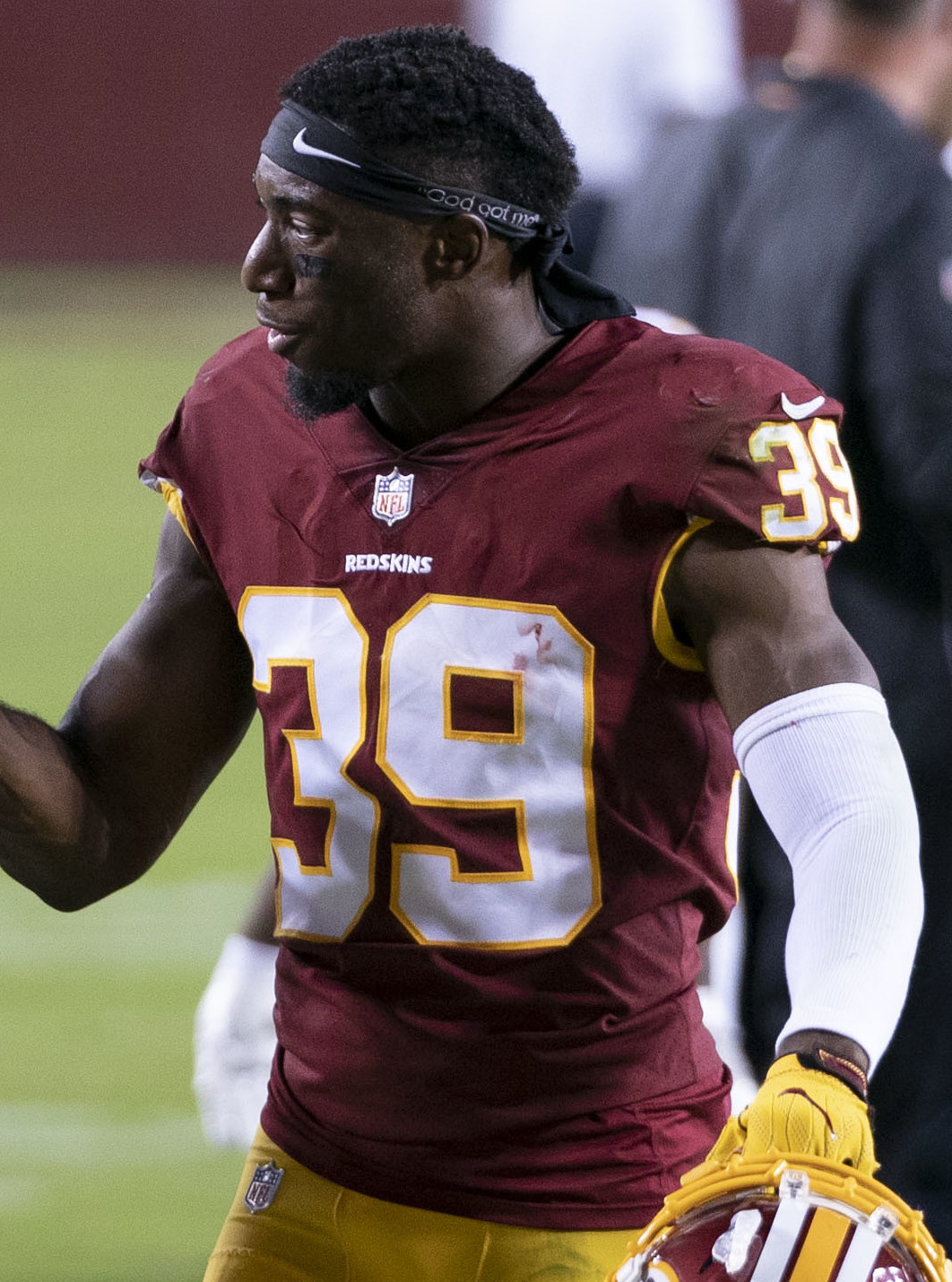 Broncos at Redskins 8/24/18